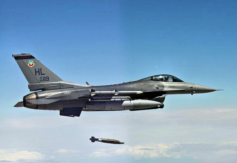 USAF F-16C block 40 #89-2119 from the 421st FS releases a GBU-31 during a Combat Hammer mission on May 11th, 2011. [USAF photo]